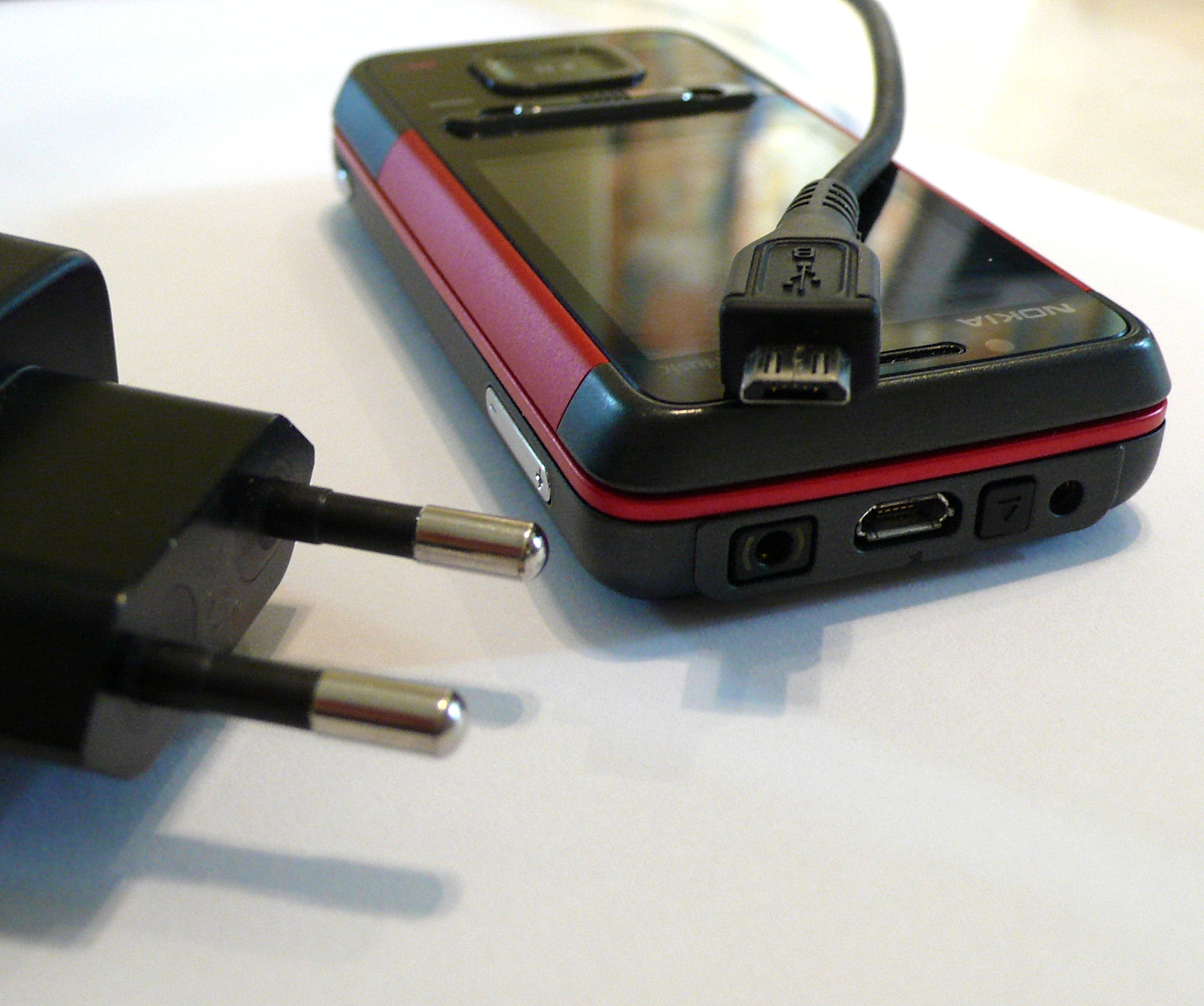 MicroUSB charging cable for mobile phones. The device shown is a Nokia 5610 XpressMusic phone.